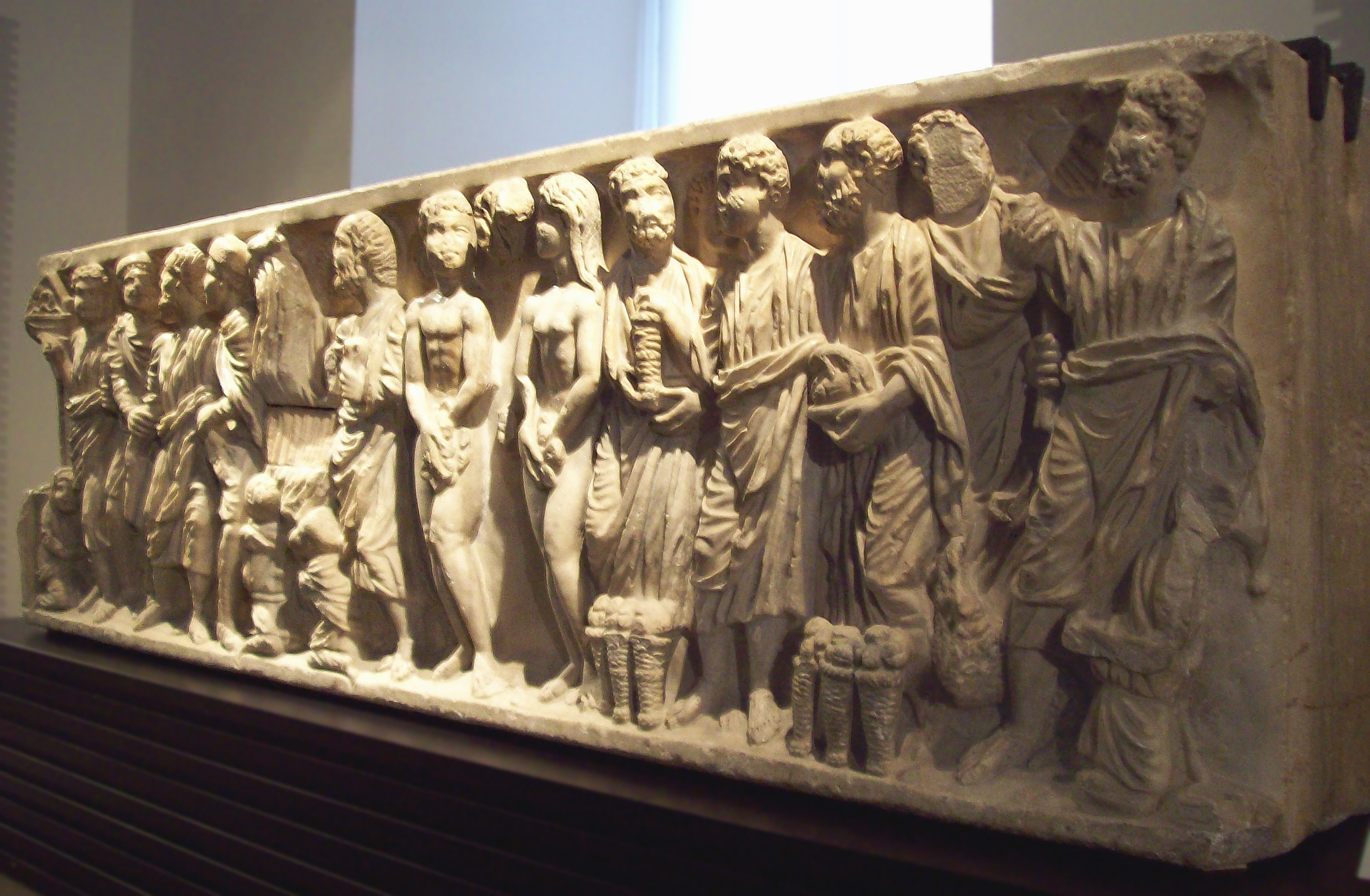 Early Christian artwork with a high-relief representing scenes from the Old and the New Testament.